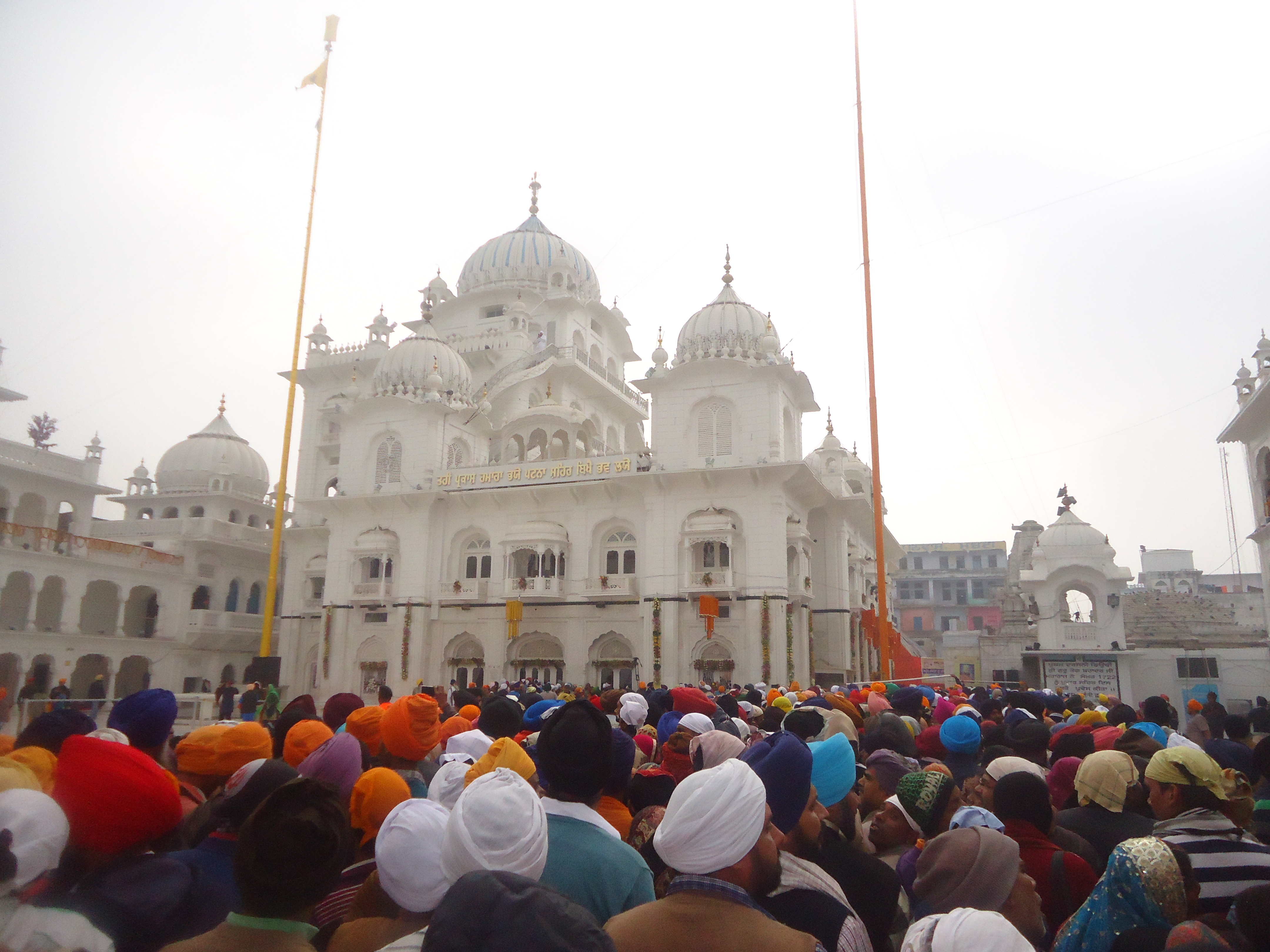 The Religious Hub on 350th PrakahParv at Takht Sri Patna Sahib showing the culture and tradition of our Motherland India